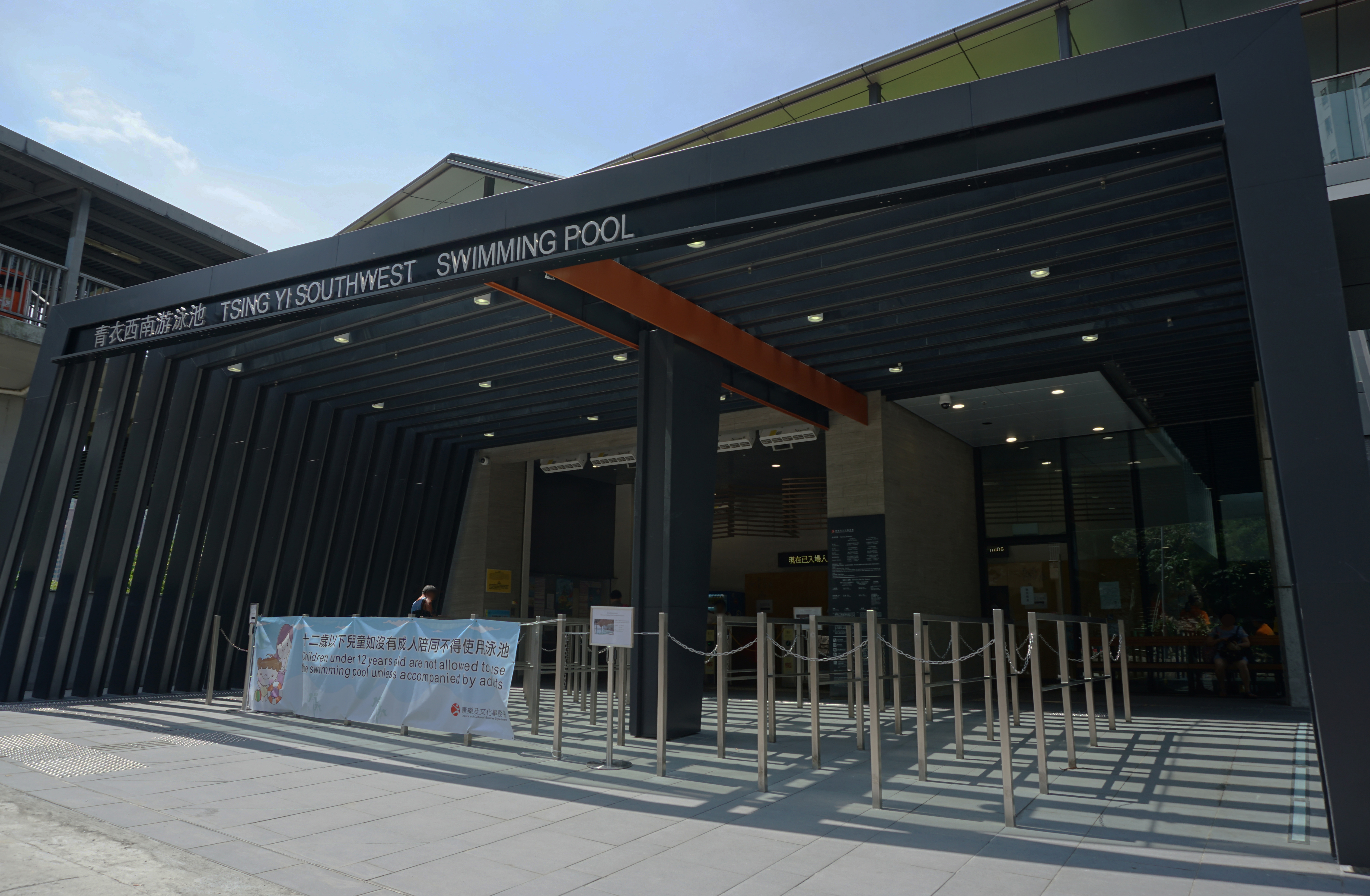 Southwest Swimming Pool in Tsing Yi, Hong Kong.